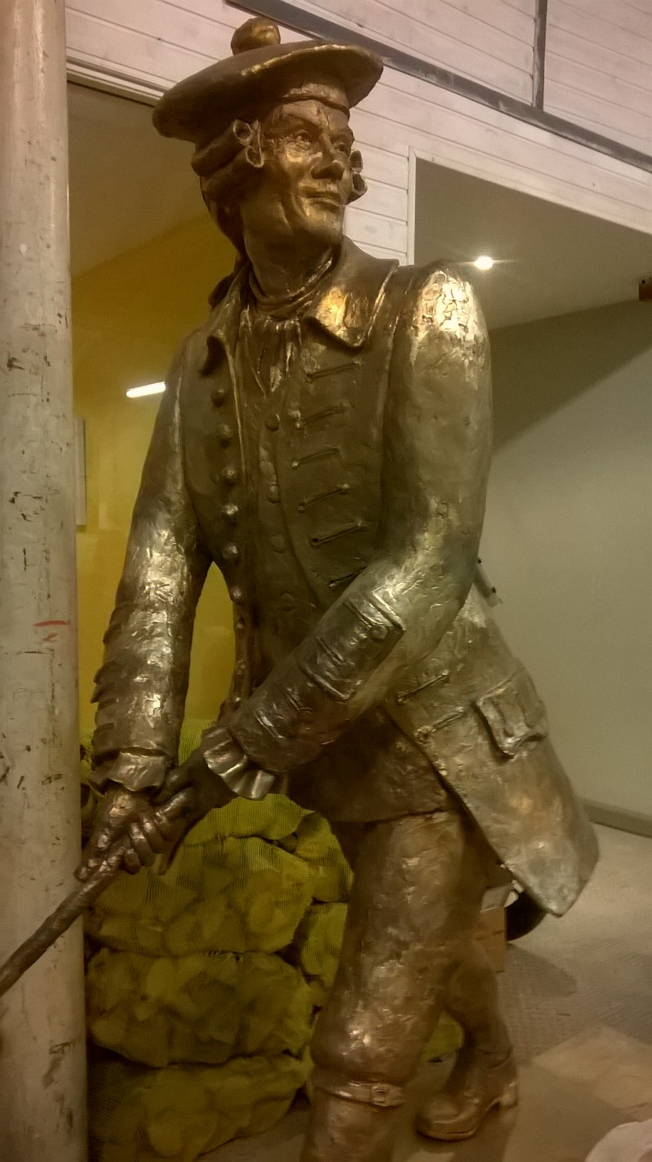 Cast bronze 110% life-sized figure of John Rattray, signatory on 7th March 1744 to the original Rules of Golf